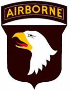 The 101st Airborne (Air Assault) Division patch.